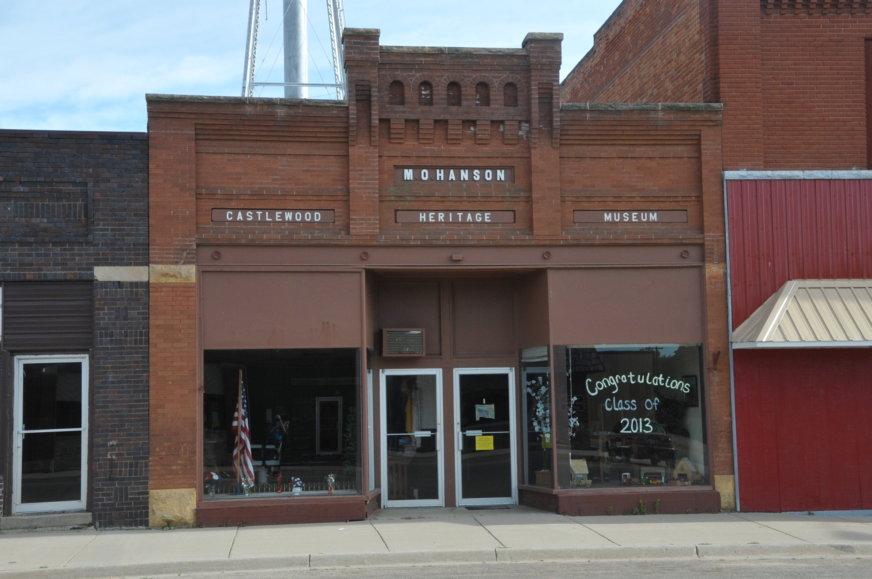 BUILT IN 1907 AS A COMMERCIAL BLOCK AND NOW USED AS A HERITAGE MUSEUM